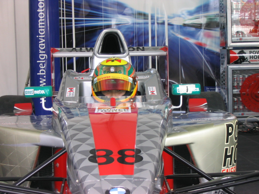 Hanss Lin in his Formula BMW at Sepang in June 2004